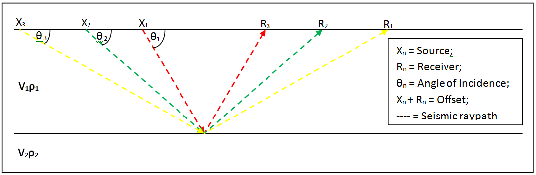 Diagram shows how source and receiver locations affect the angle of incidence.